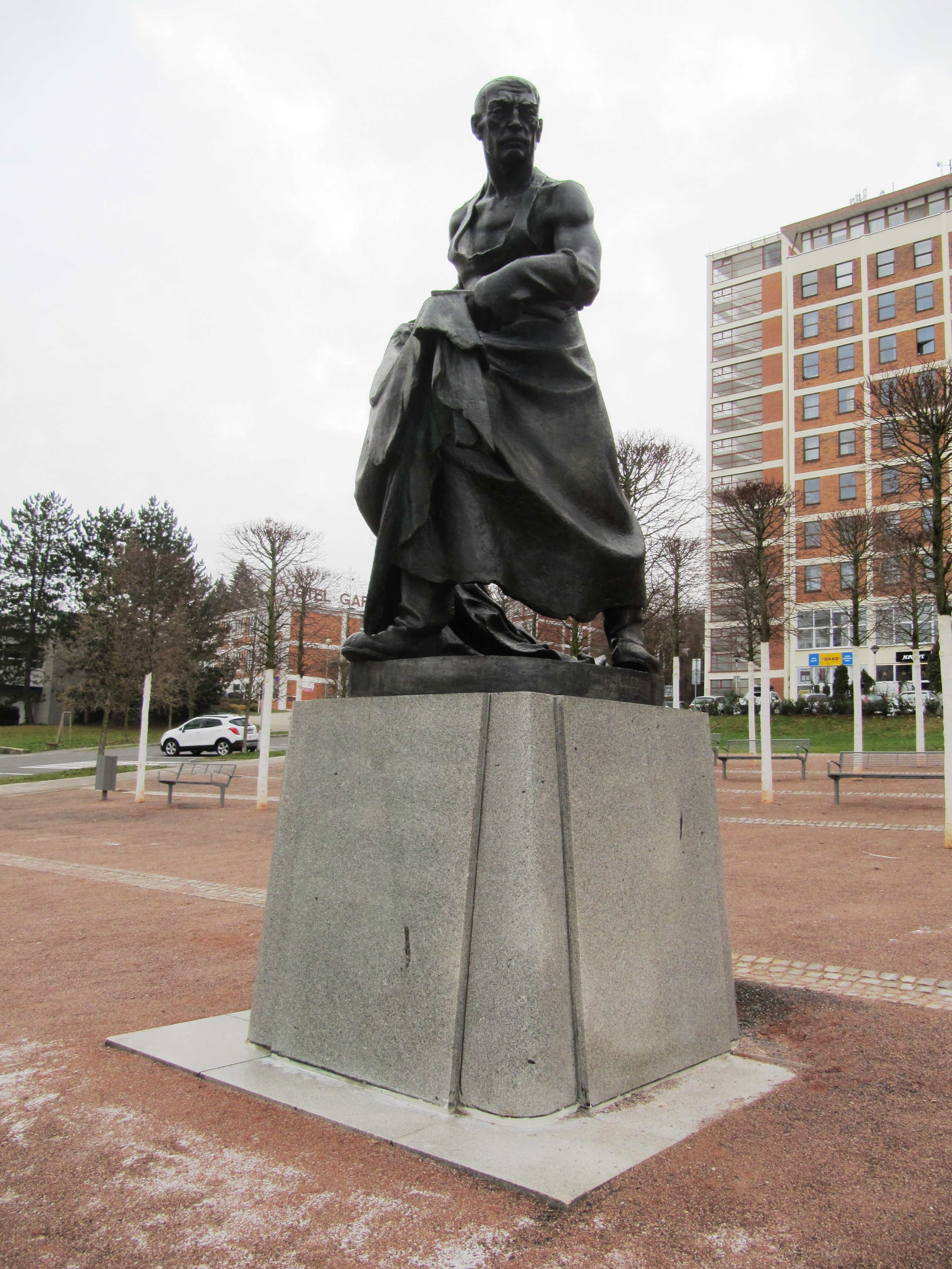 Zlín, Czechia. Statue of Tanner by Bohumil Jahoda.